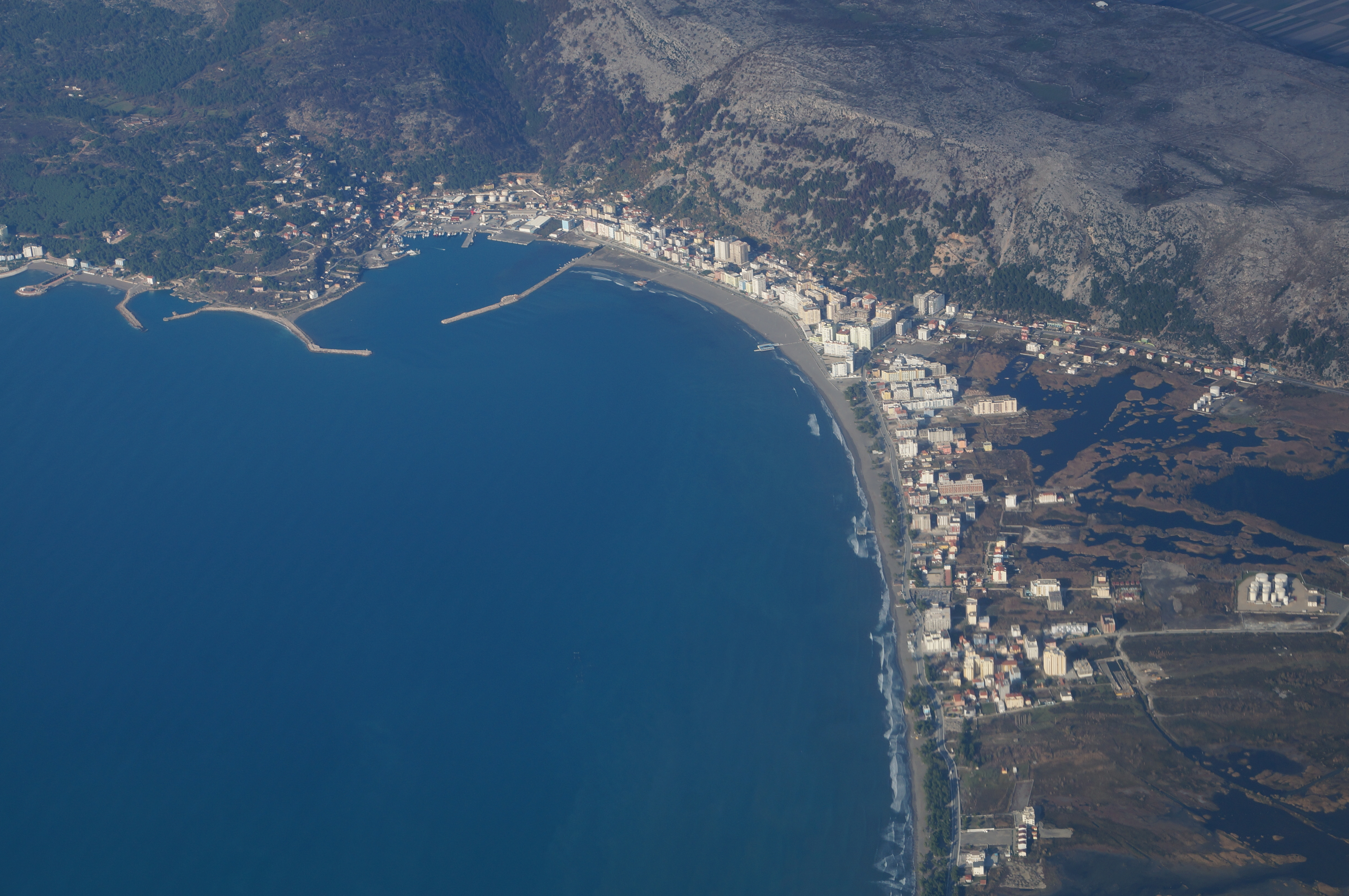 Shëngjin